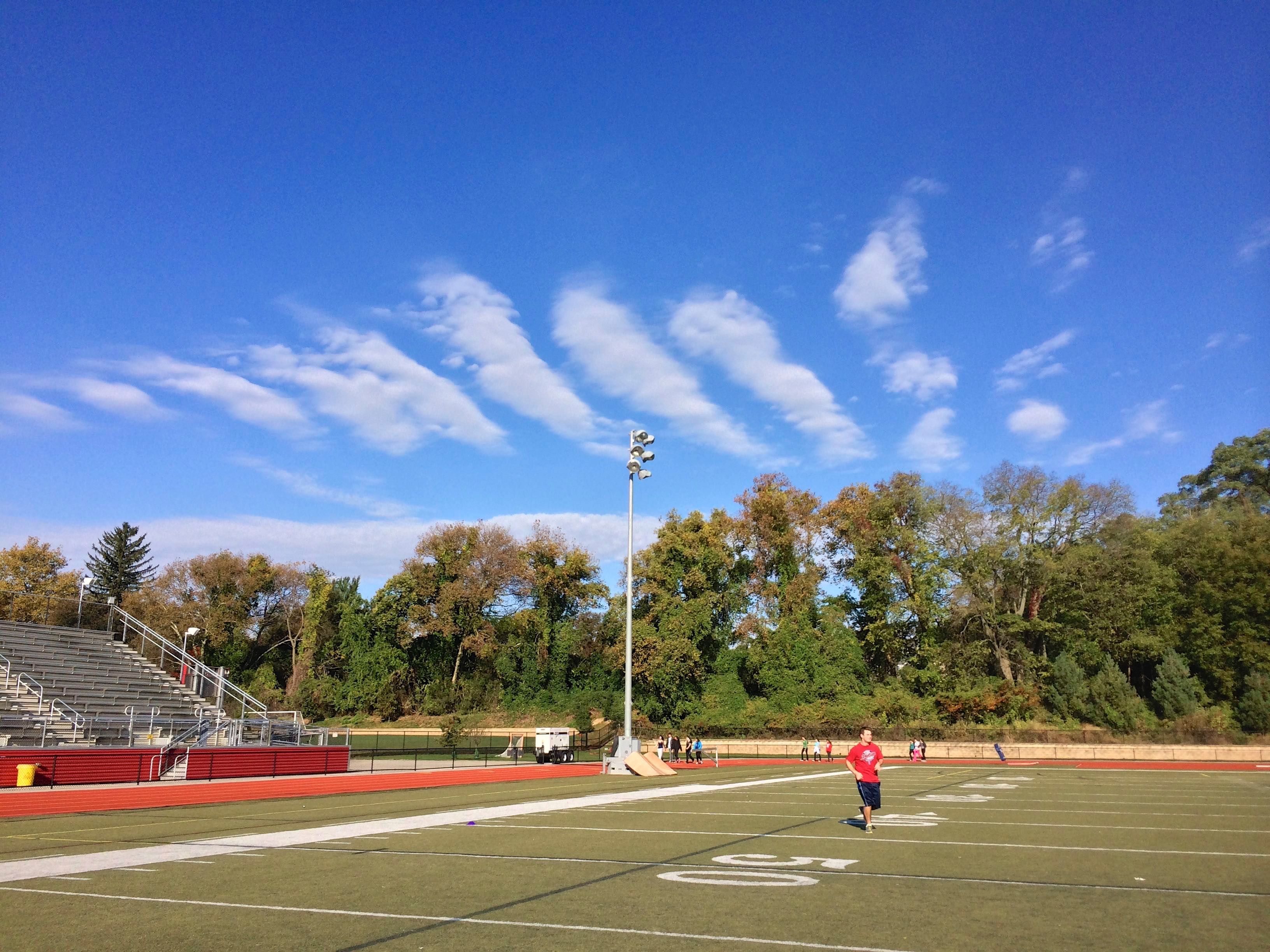 Picture of Harriton gridiron football field during a gym class.